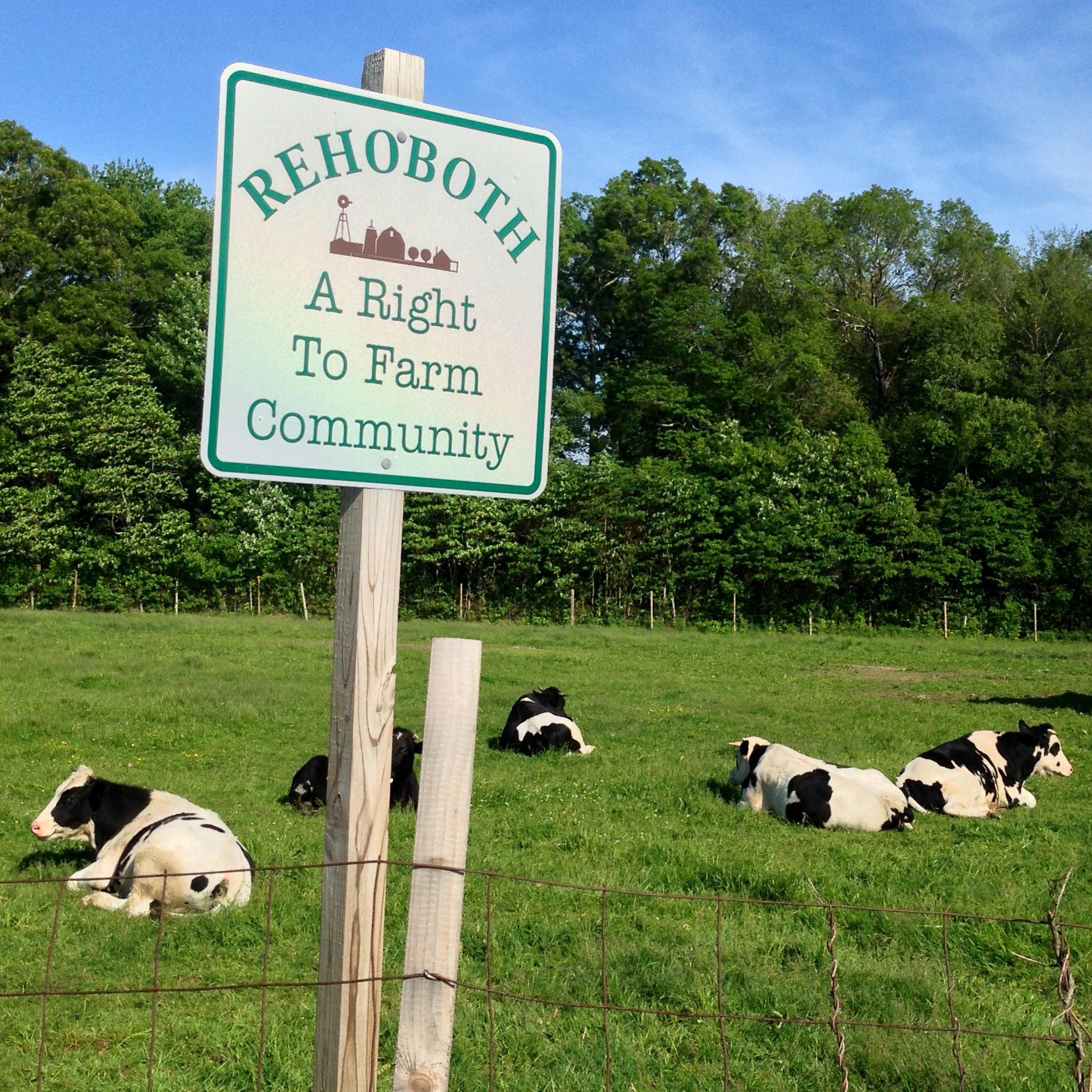 Rehoboth, Massachusetts sign stating: Rehoboth: A Right to Farm Community